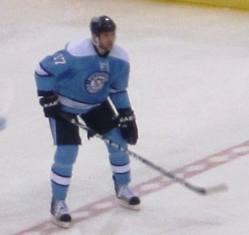 Mike Rupp of the Pittsburgh Penguins